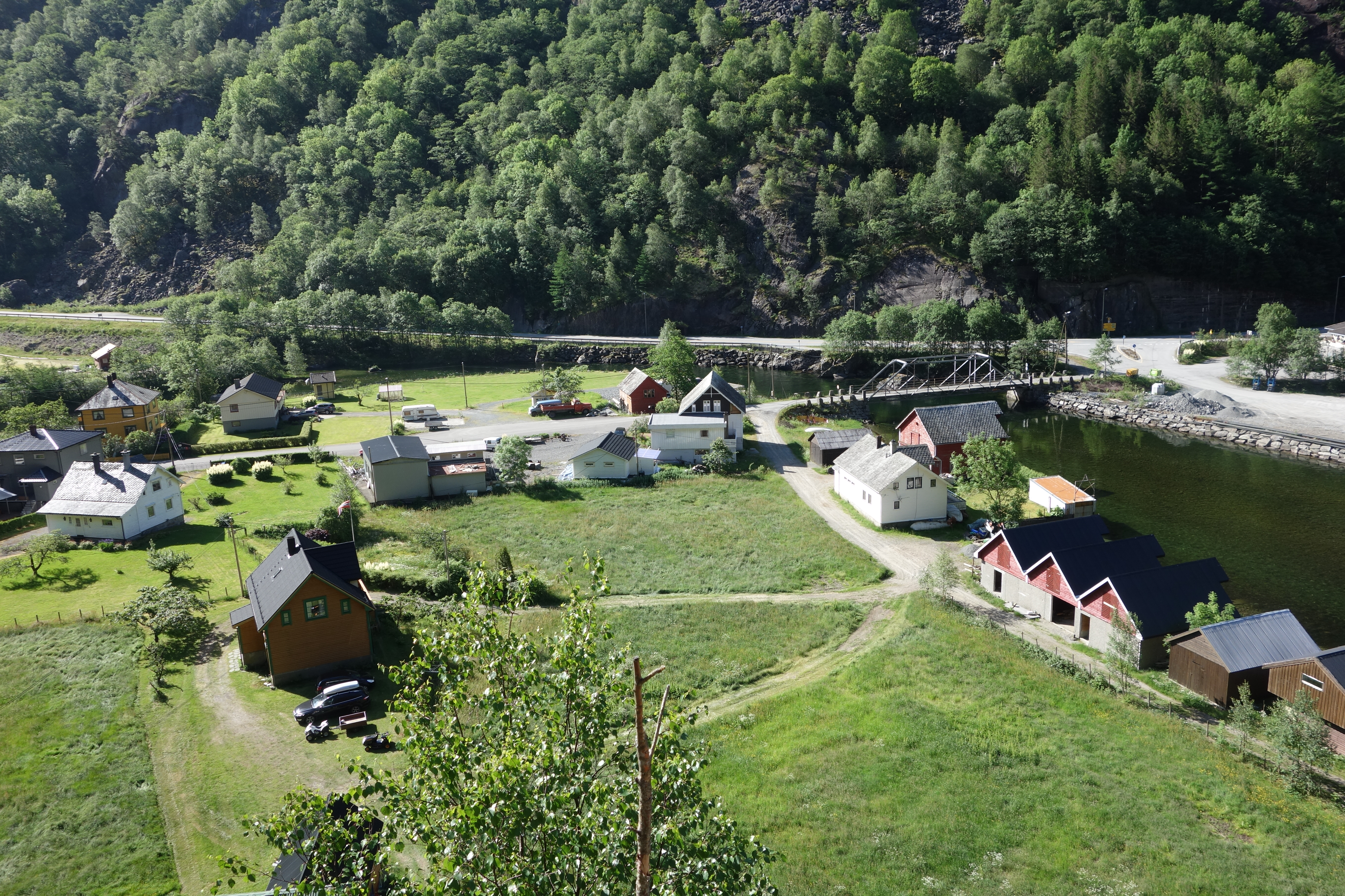 The village Fjæra in Etne municipality, Hordaland, Norway. The river Fjæraelva drains to Åkrafjorden. Fjæra bridge, built 1927.